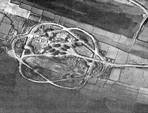 Reconnaissance photo of a North Vietnamese SA-2 (S-75) SAM site. (USAF Museum web collection)